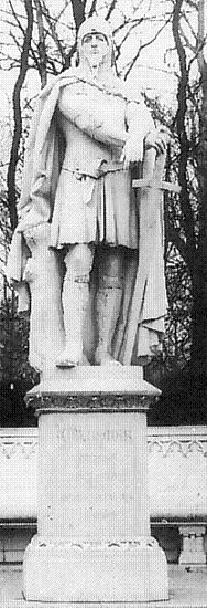 Monument in the former Siegesallee in Berlin commemorating to Waldemar, Margrave of Brandenburg-Stendal (ca. 1280–1319). Sculptor: Reinhold Begas, the sculpture was inaugurated on 22 March 1900.